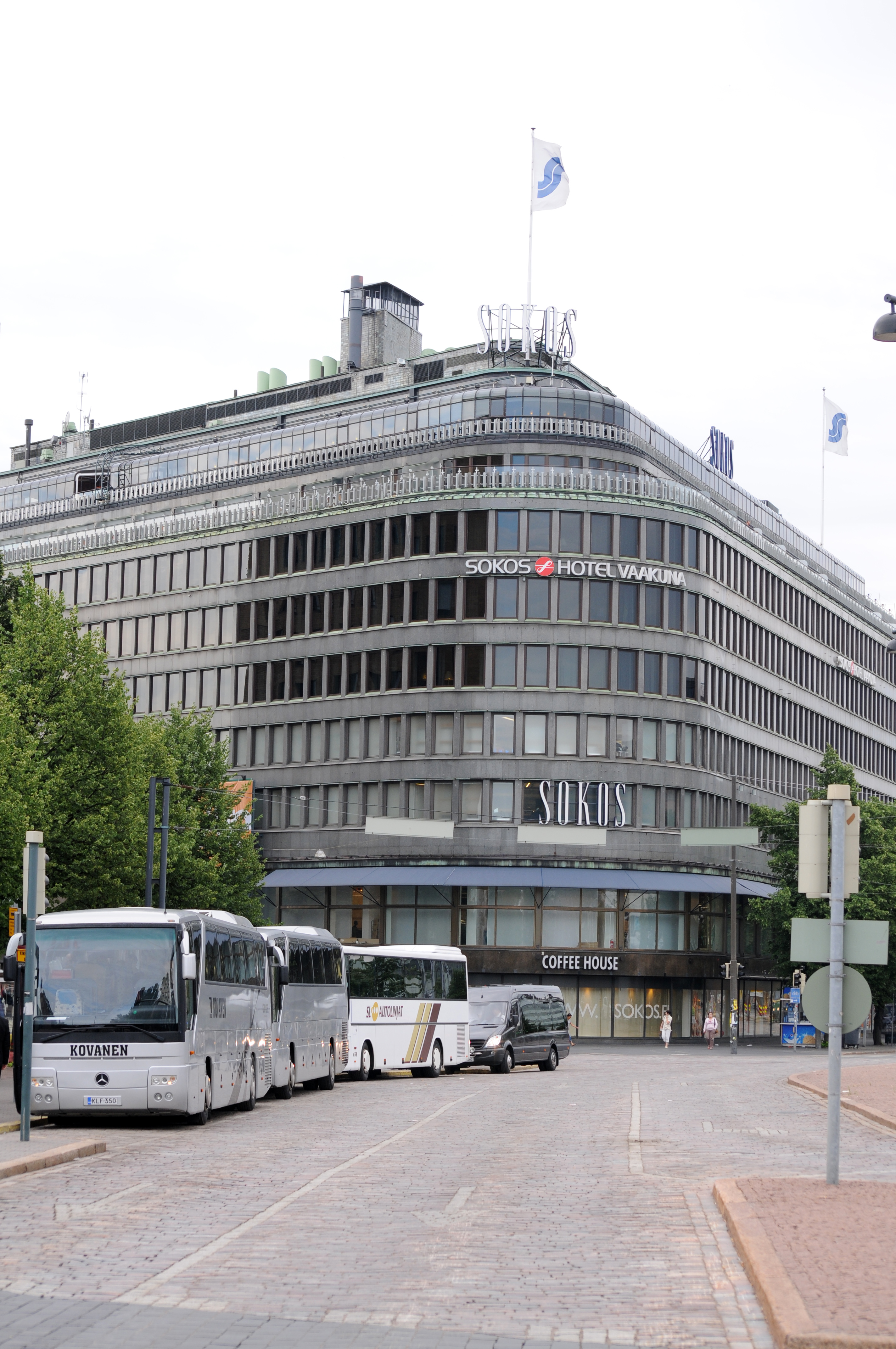 Sokos Hotel Vaakuna and Sokos department store in Helsinki, Finland.